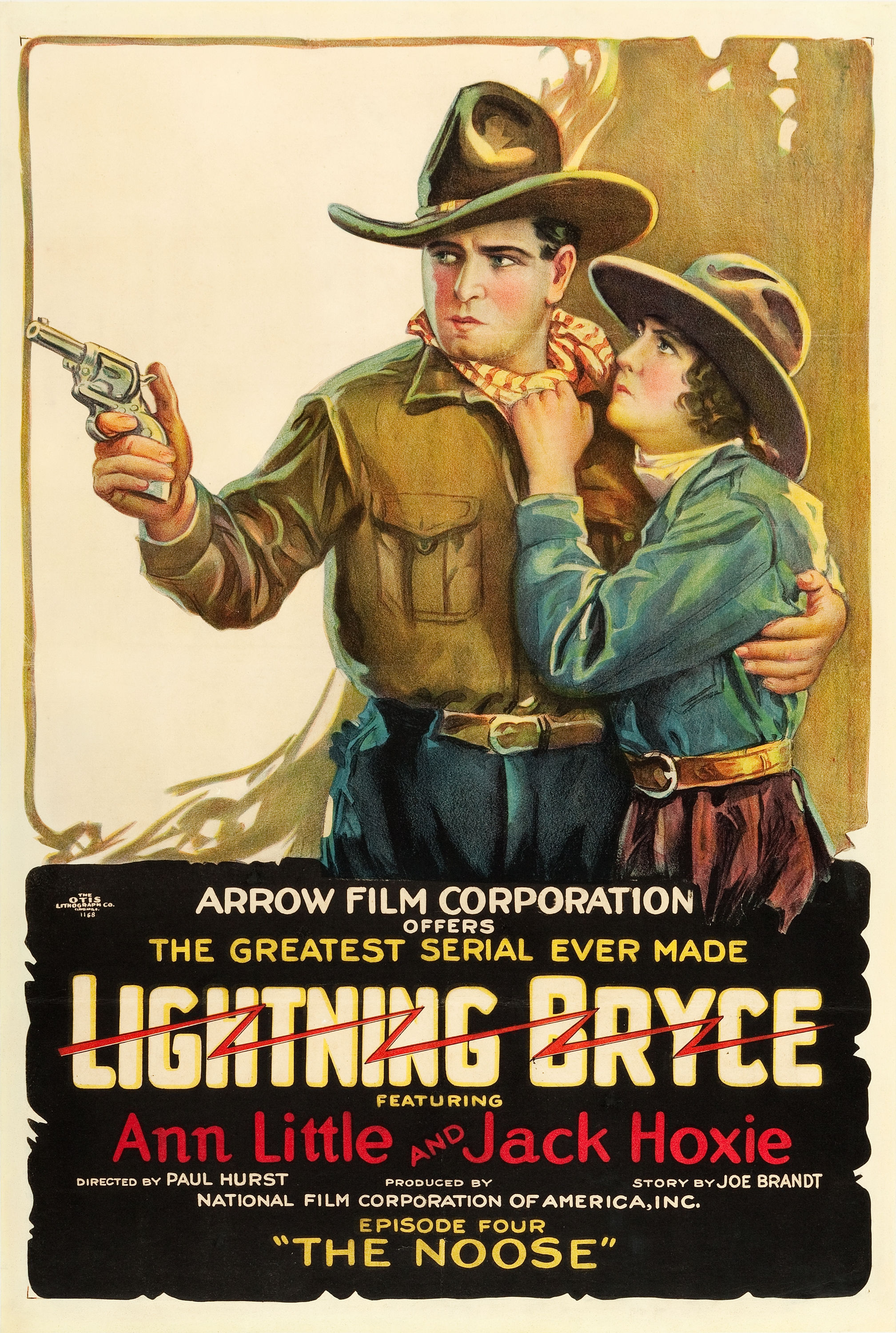 Poster for the American western film serial Lightning Bryce (1919) with Jack Hoxie and Ann Little.